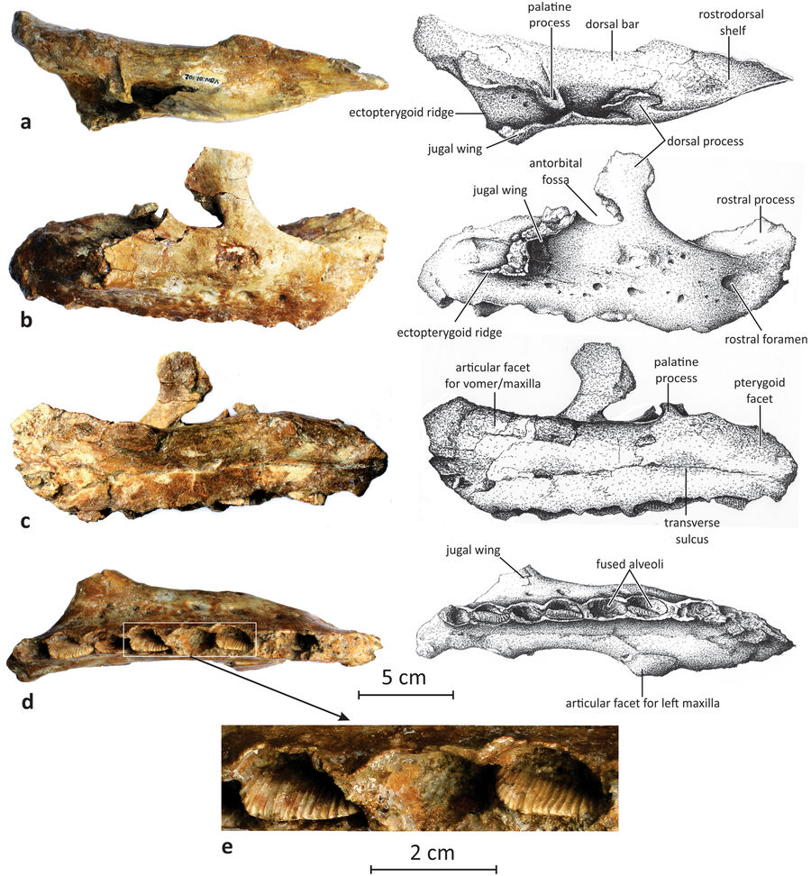 Figure 1 Right maxilla of Matheronodon provincialis gen. et sp. nov. (MMS/VBN-02–102; holotype) in dorsal (a), lateral (b), medial (c), and ventral (d) views. (e) Close-up of the second and third maxillary crowns.